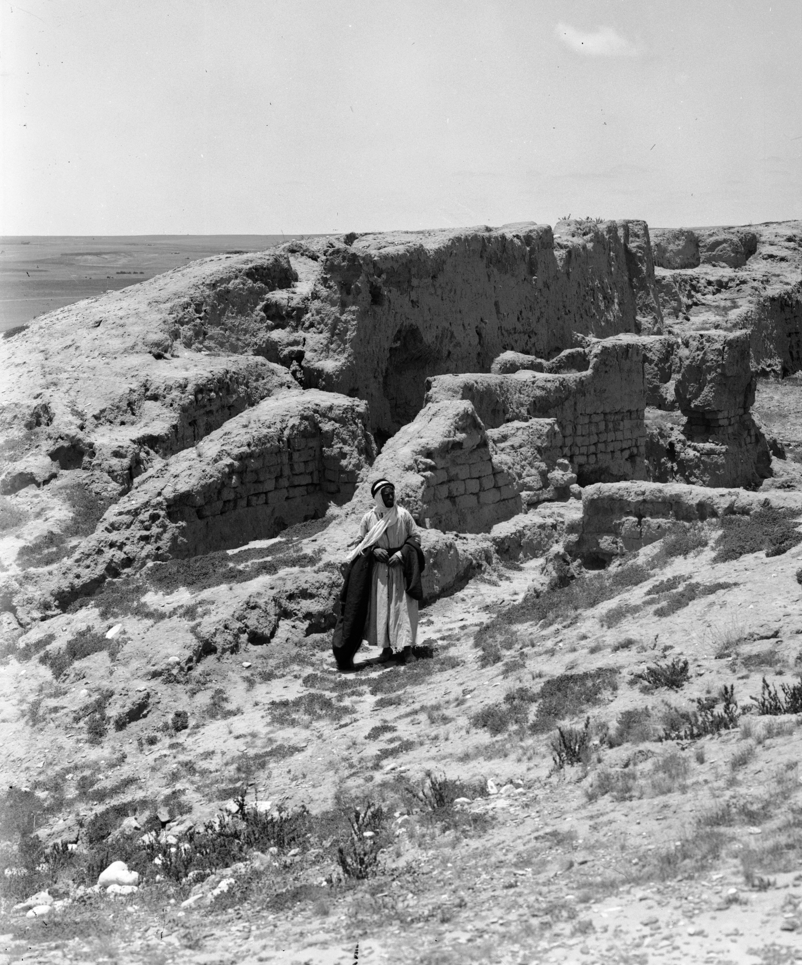 Excavations. Tell Jemmeh (Gerar). Tell Jemmeh. Remains of the ancient ramparts of mud brick construction